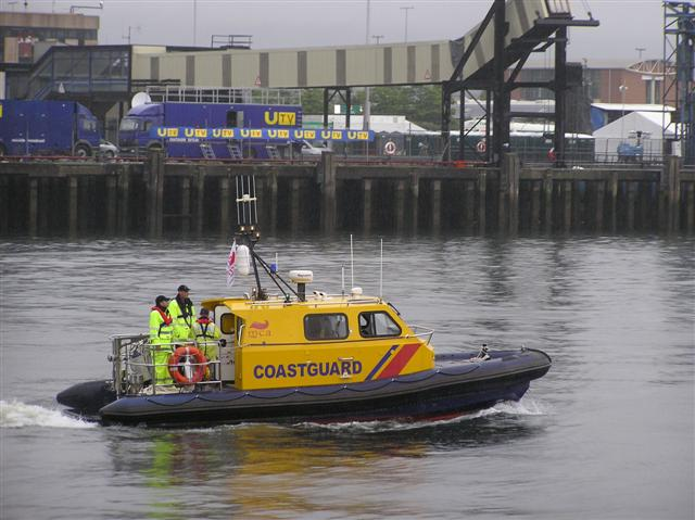 Coastguard boat, Belfast Pictured in the Lagan